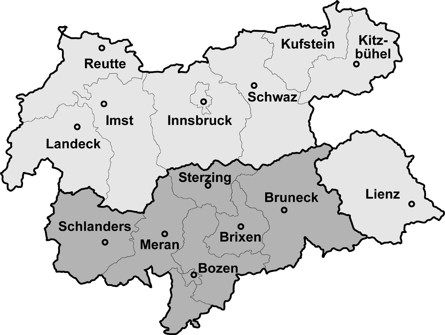 Tyrol after 1918, the southern part is now a part of Italy